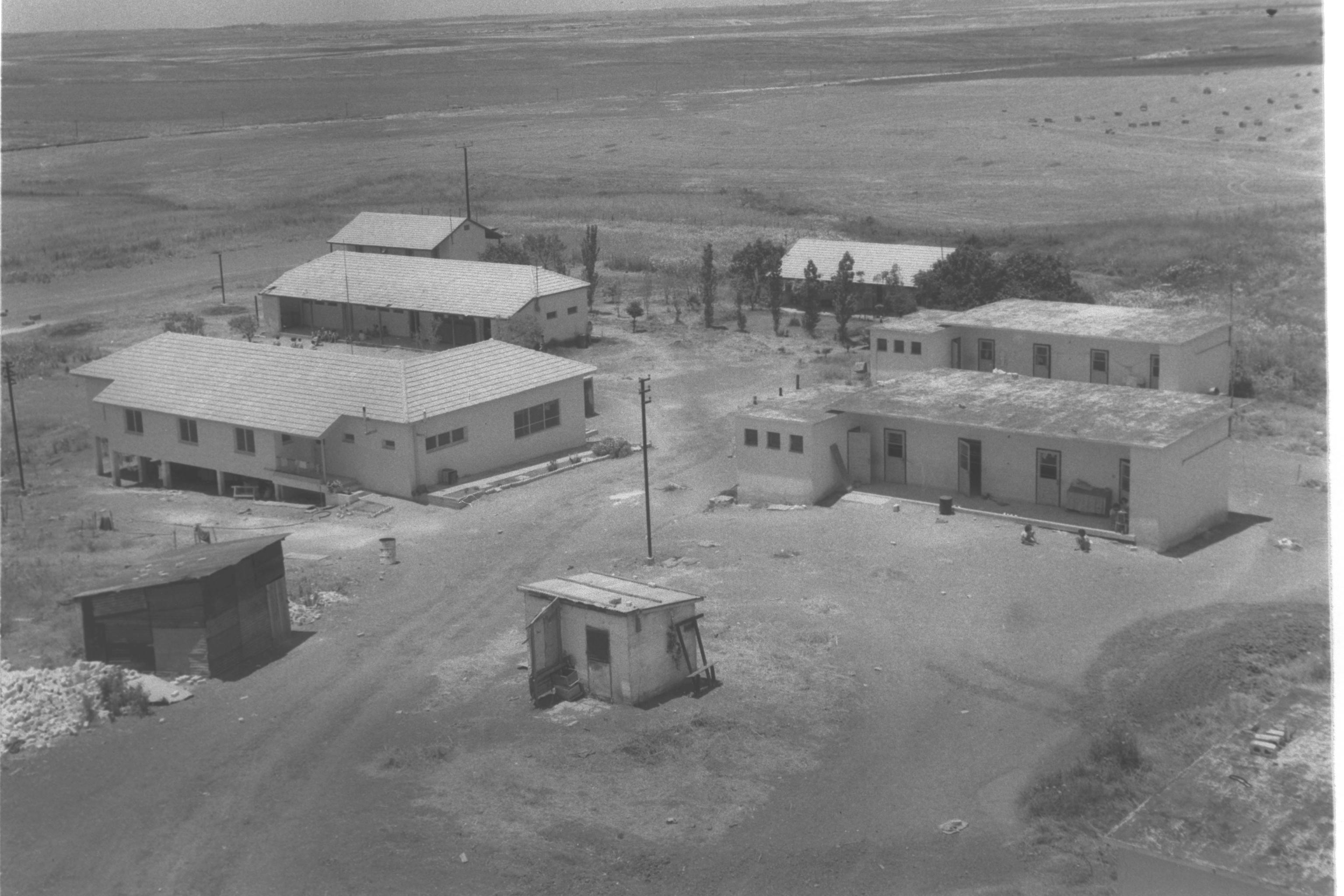 KIBBUTZ HULDA. קיבוץ חולדה.